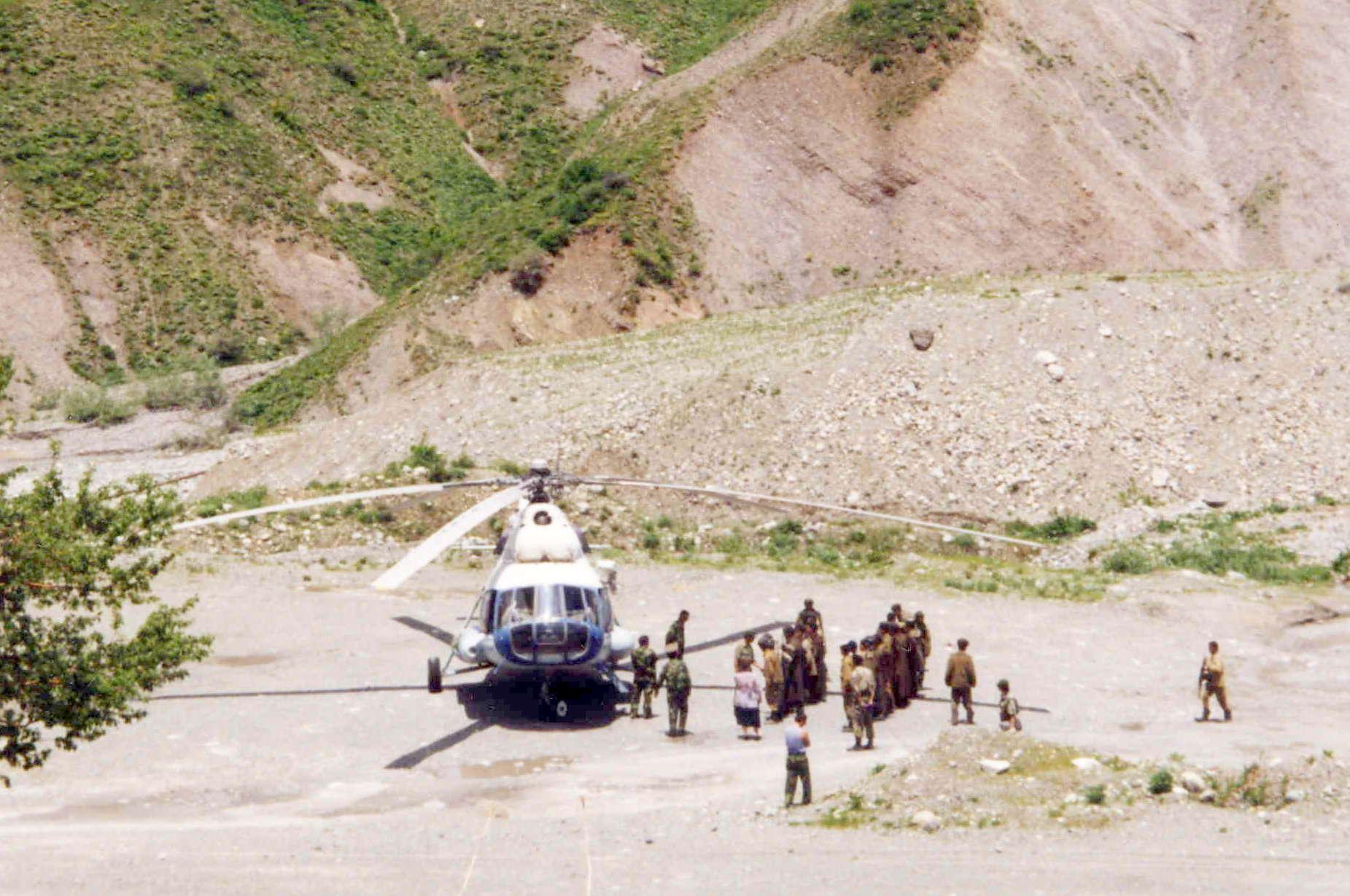 On parade . . Tajik soldiers preparing to leave the mine.